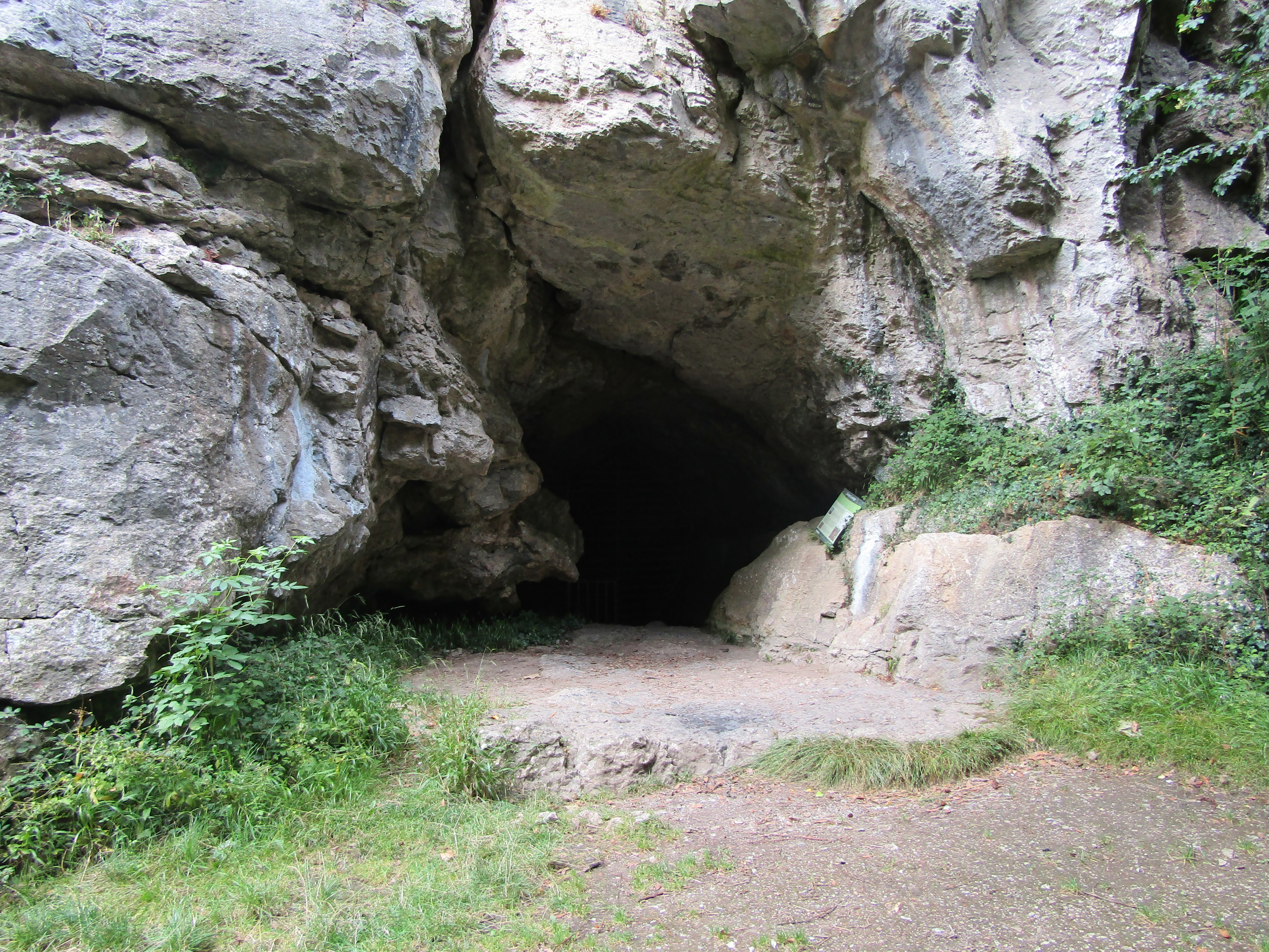 The entrance to Cow Cave, Chudleigh Rocks, seen within the context of the rock face.